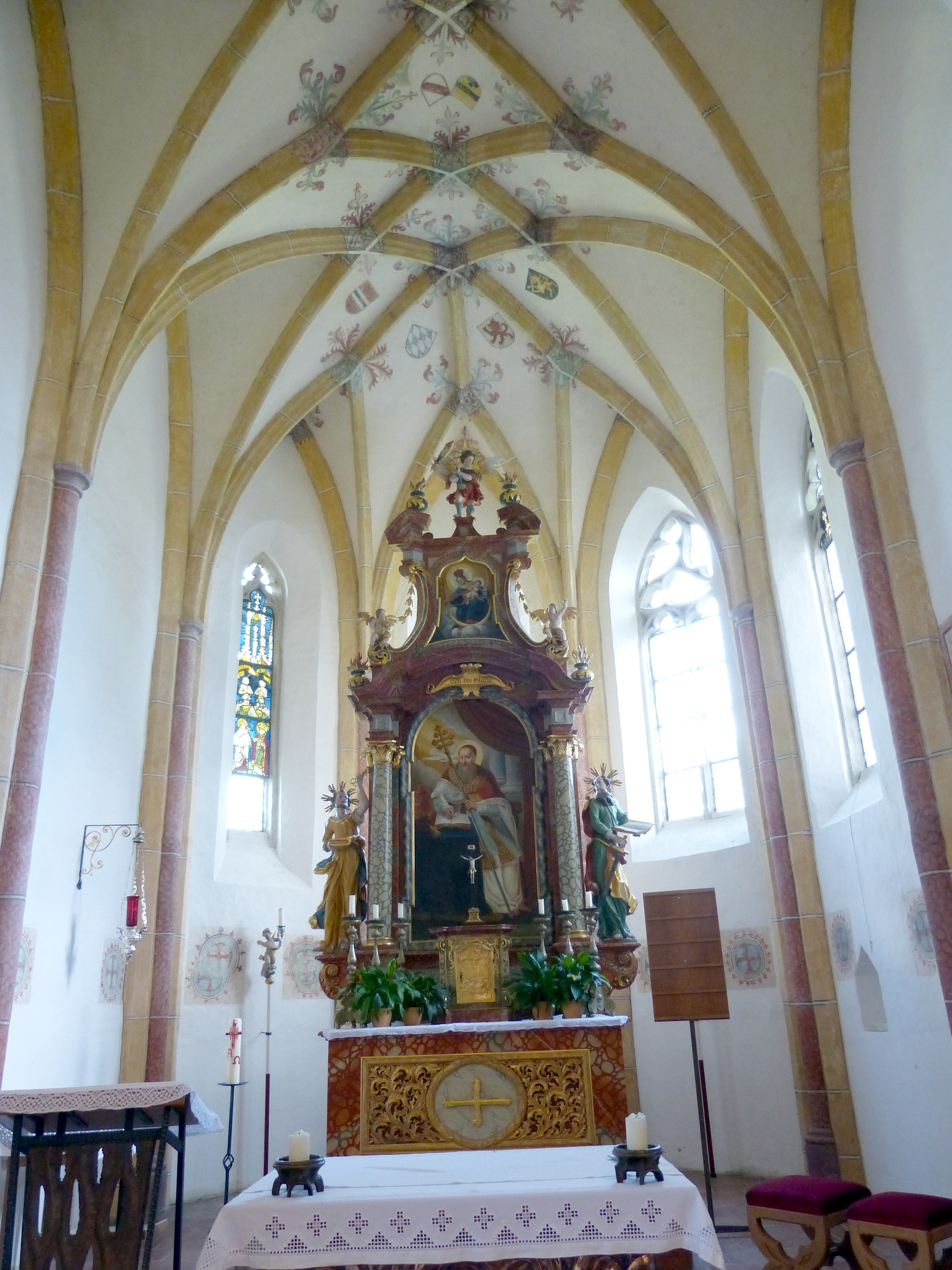 Grongörgen ( Lower Bavaria ). Saint Gregory church ( 1460 ): Presbytery.